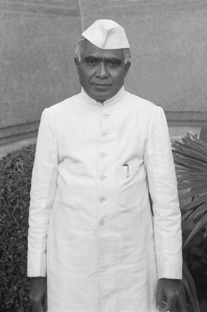 Burgula Ramakrishna Rao, First Elected Chief Minister of Hyderabad State, India (March 1952)